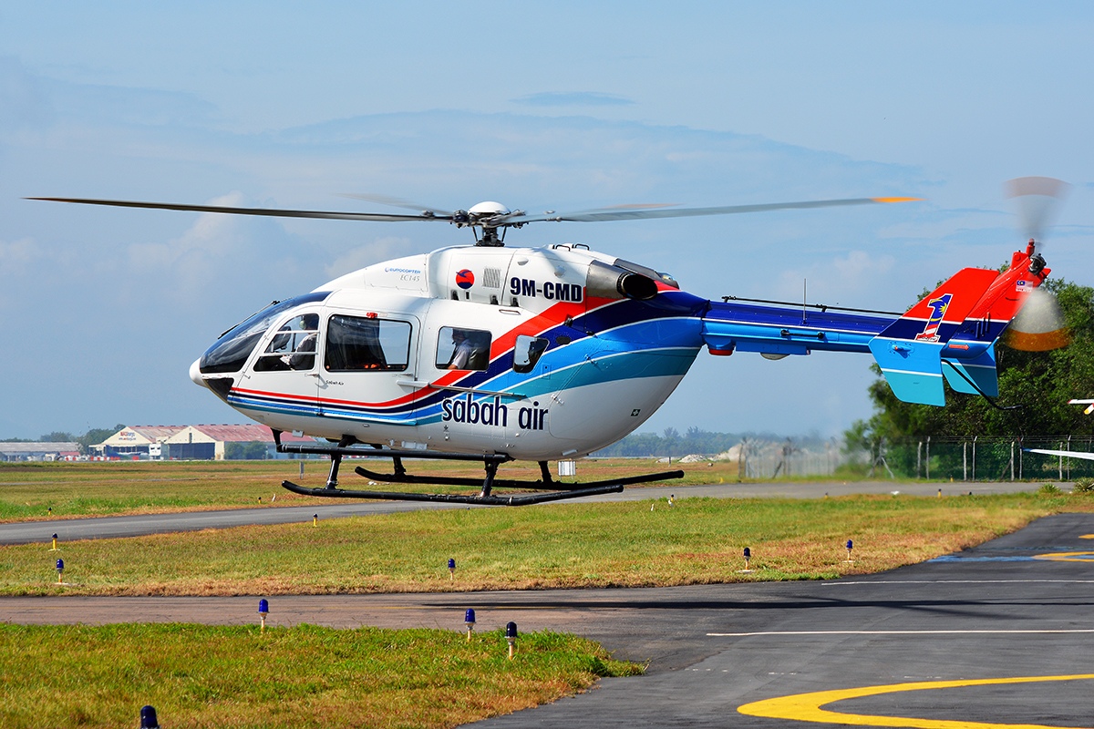 Photo is a helicopter belonging to Sabah Air which will be used for its wiki page.